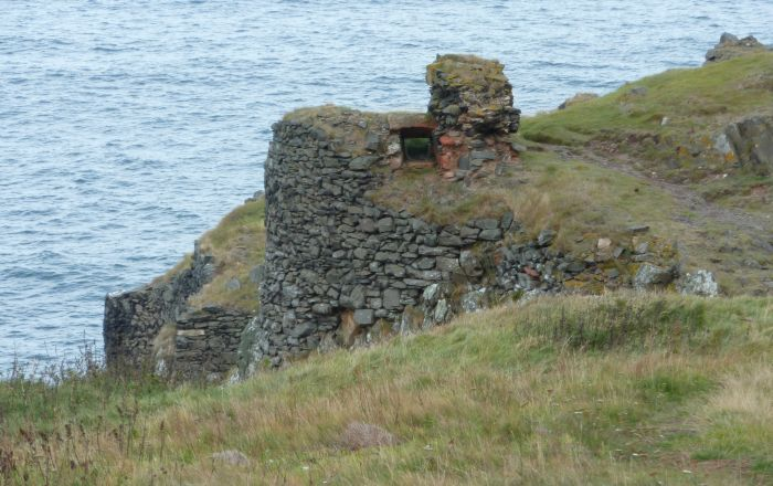 Fast castle, Scotland